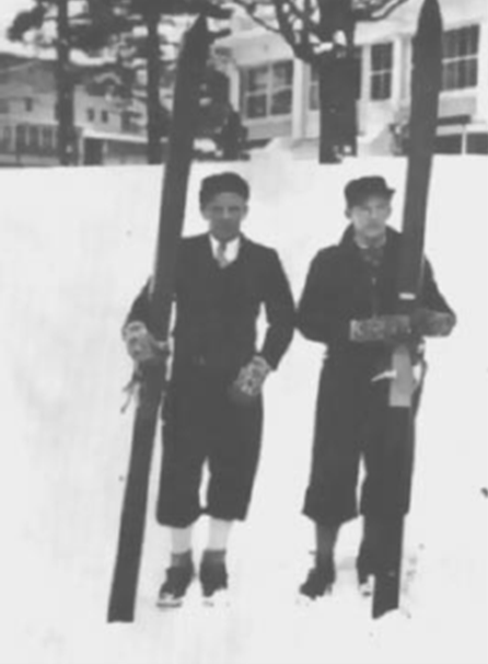 Sigmund and Birger Ruud